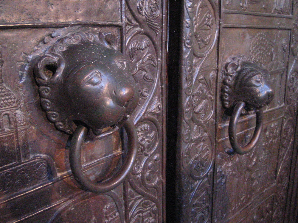 Gniezno Doors, knockers